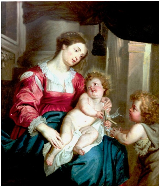 Virgin with Child and Little Saint John